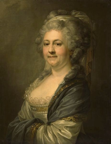 Maria Dmitrievna Melissino, 1740-1801